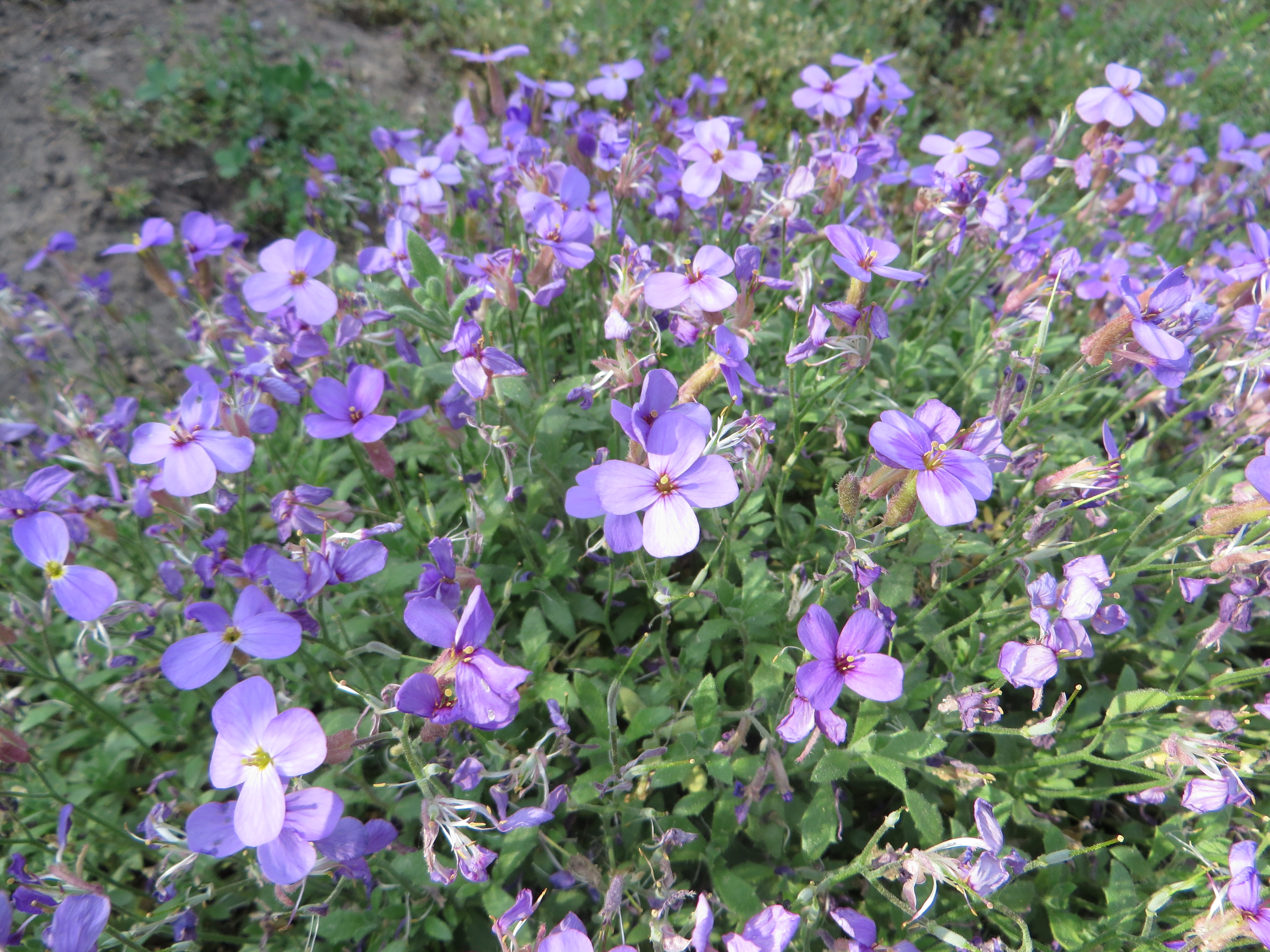 Aubrieta columnae. The Botanical Garden of the University of Latvia